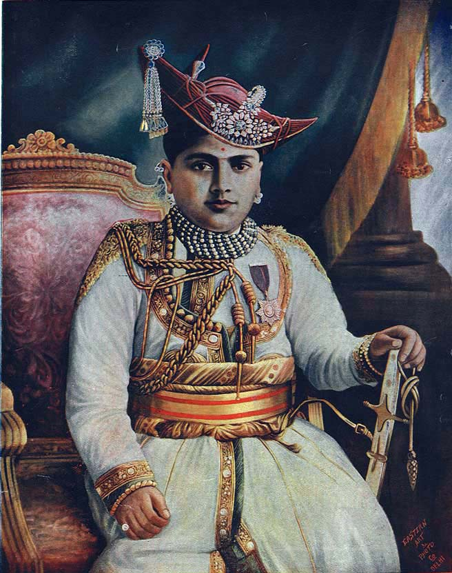 The Maharaja of Gwalior: a hand-colored photograph, c.1930's